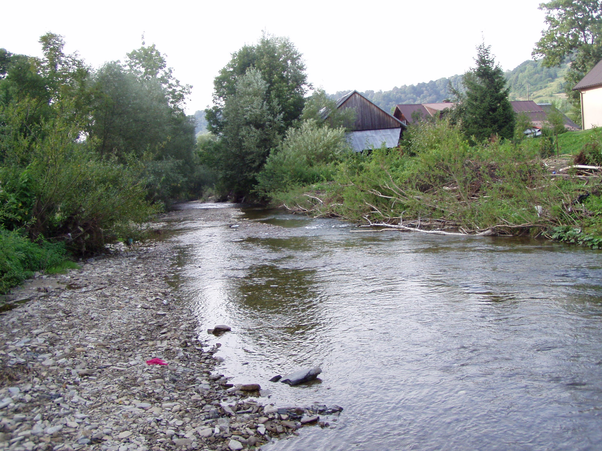 Potok Tyrawski w Tyrawie Wołoskiej